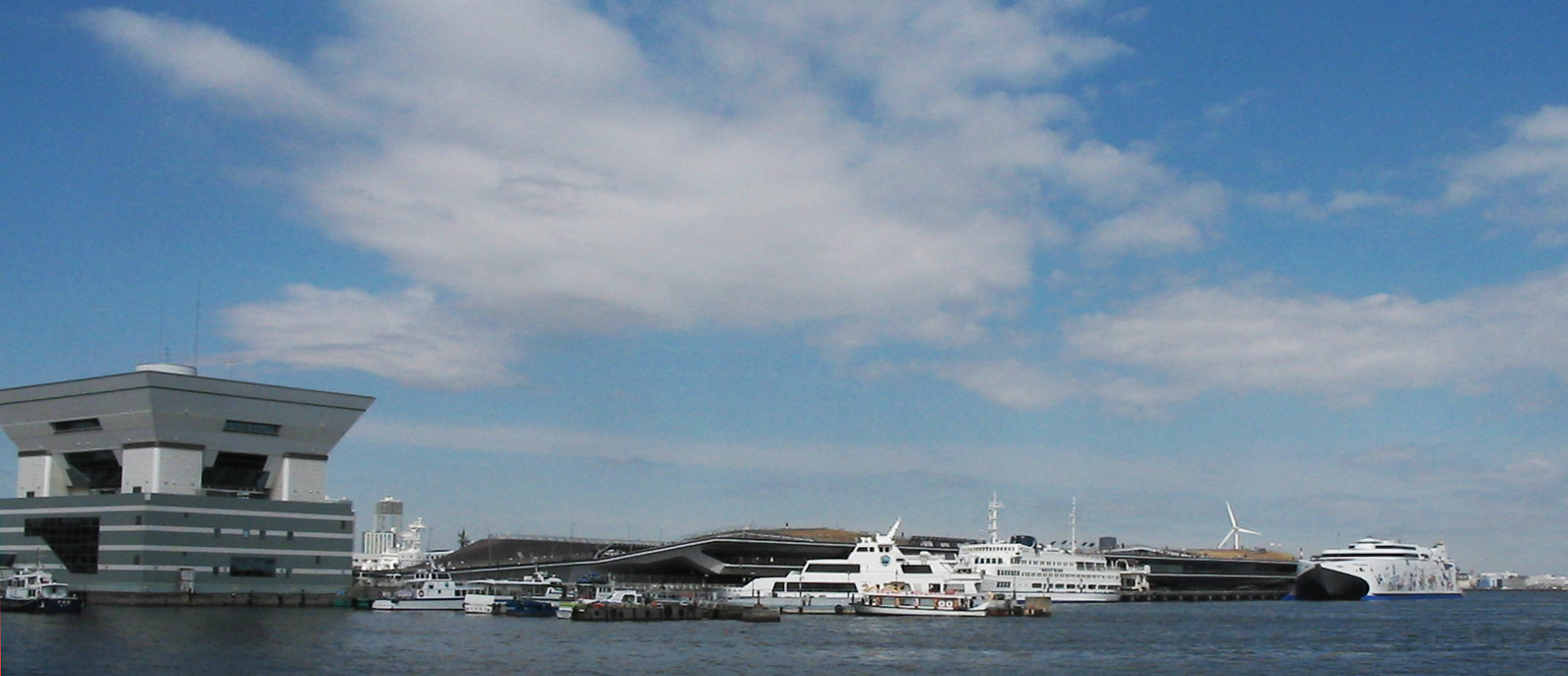 High speed car ferry "Natchan World" at OSANBASHI YOKOHAMA INTERNATIONAL PASSENGER TERMINAL. Yokohama City, Kanagawa Pref, Japan.